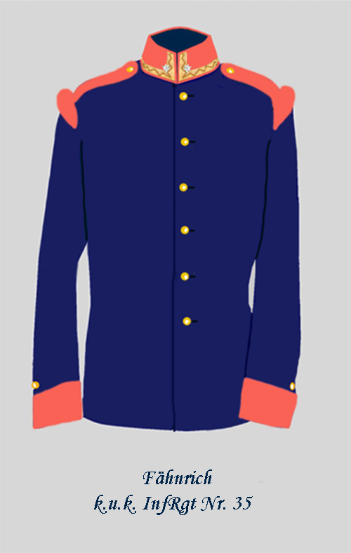 Ensign of the k.u.k. german 35th Infantry Regiment (Collar crab-red, buttons yellow)